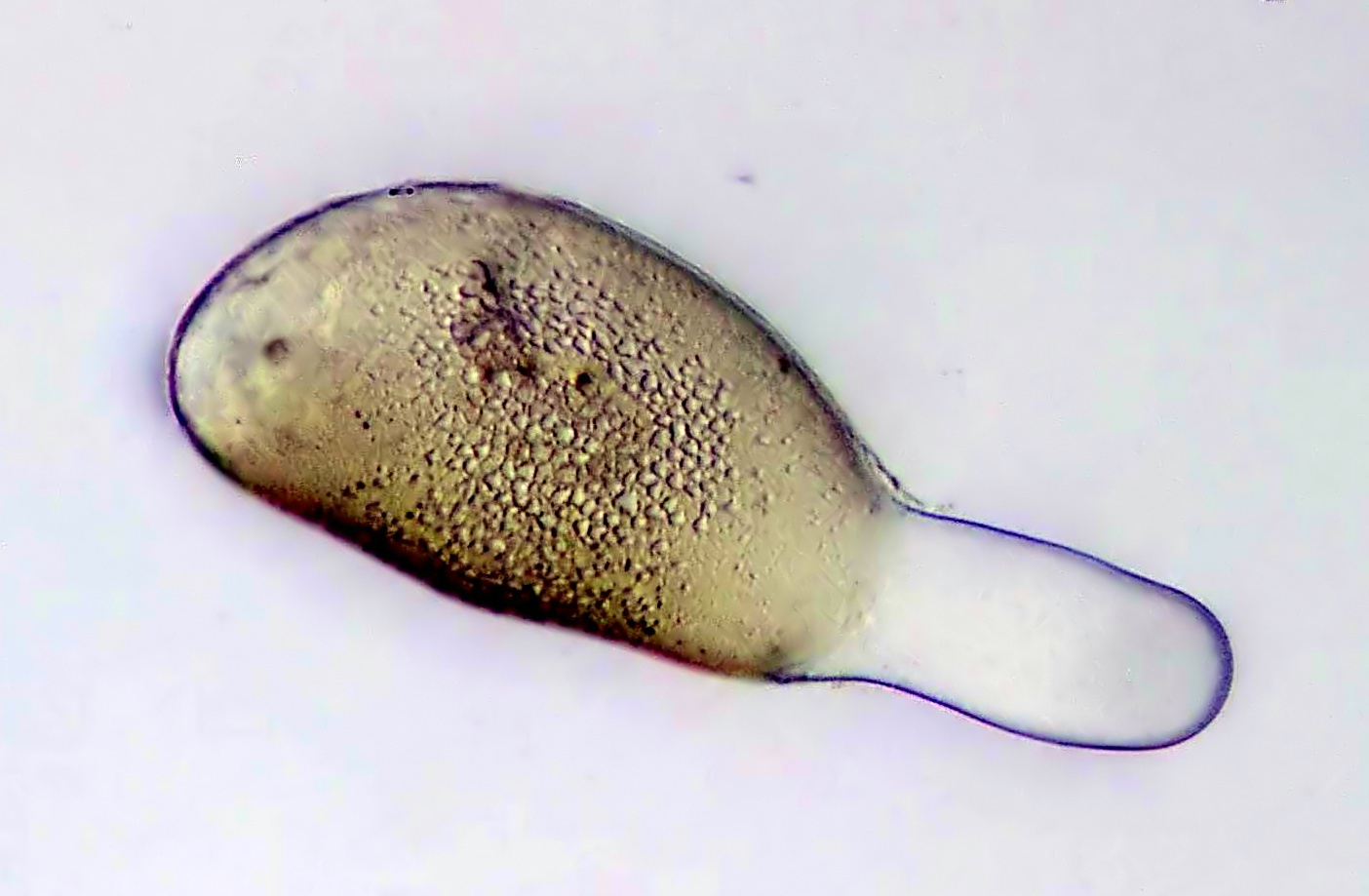 Clivia miniata, pollen tube.